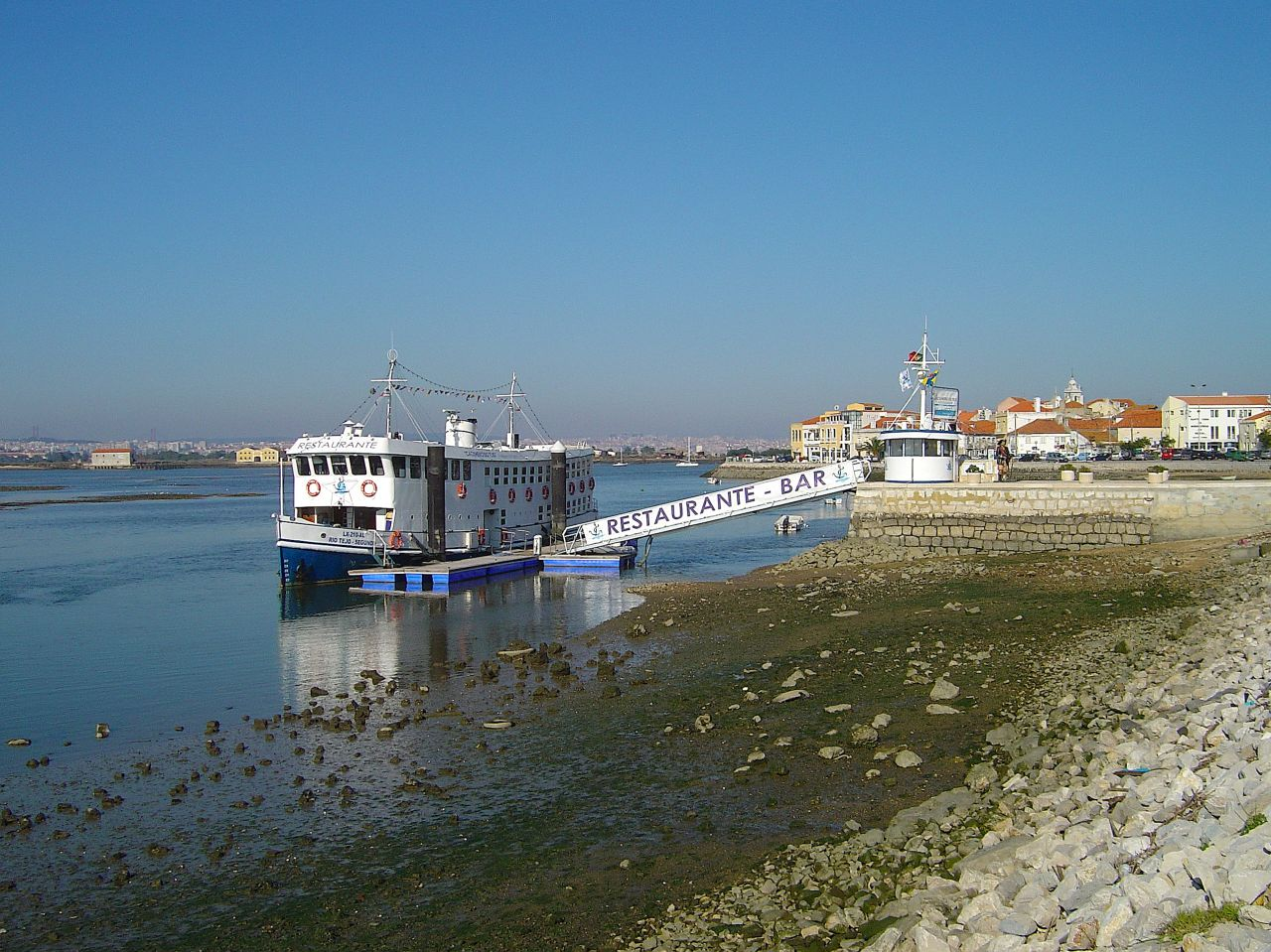 See where this picture was taken. [?]